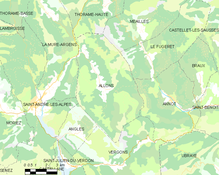 Map commune FR insee code 04005.png Légende